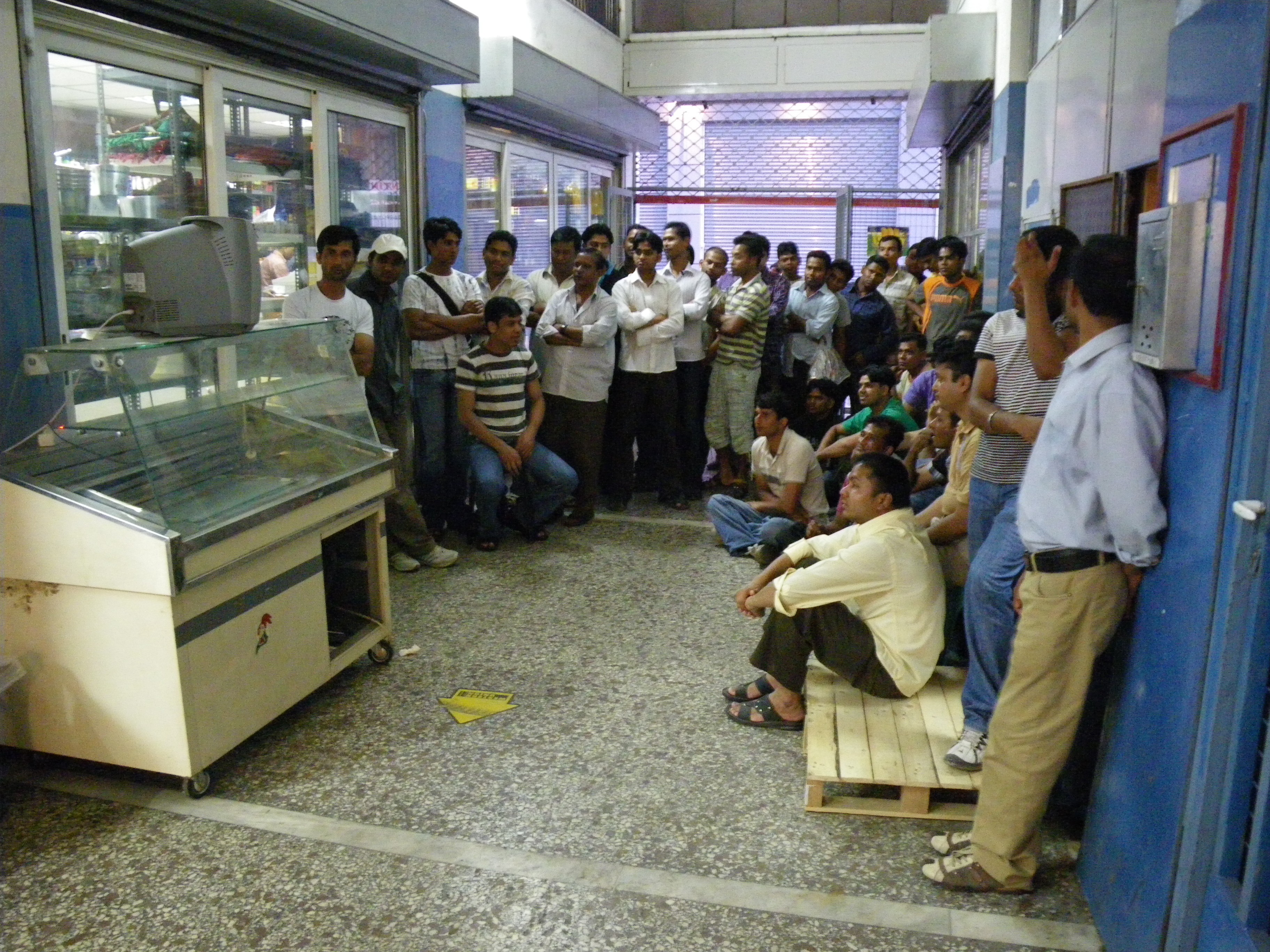 pakistani immigrants watch the cricket match on tv